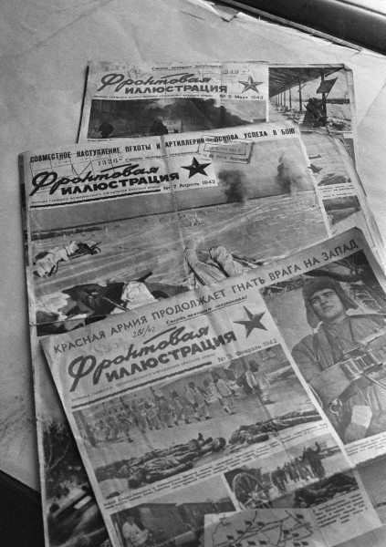 “Great Patriotic War era newspapers: military bulletins of 1942”. Great Patriotic War era newspapers: military bulletins of 1942.